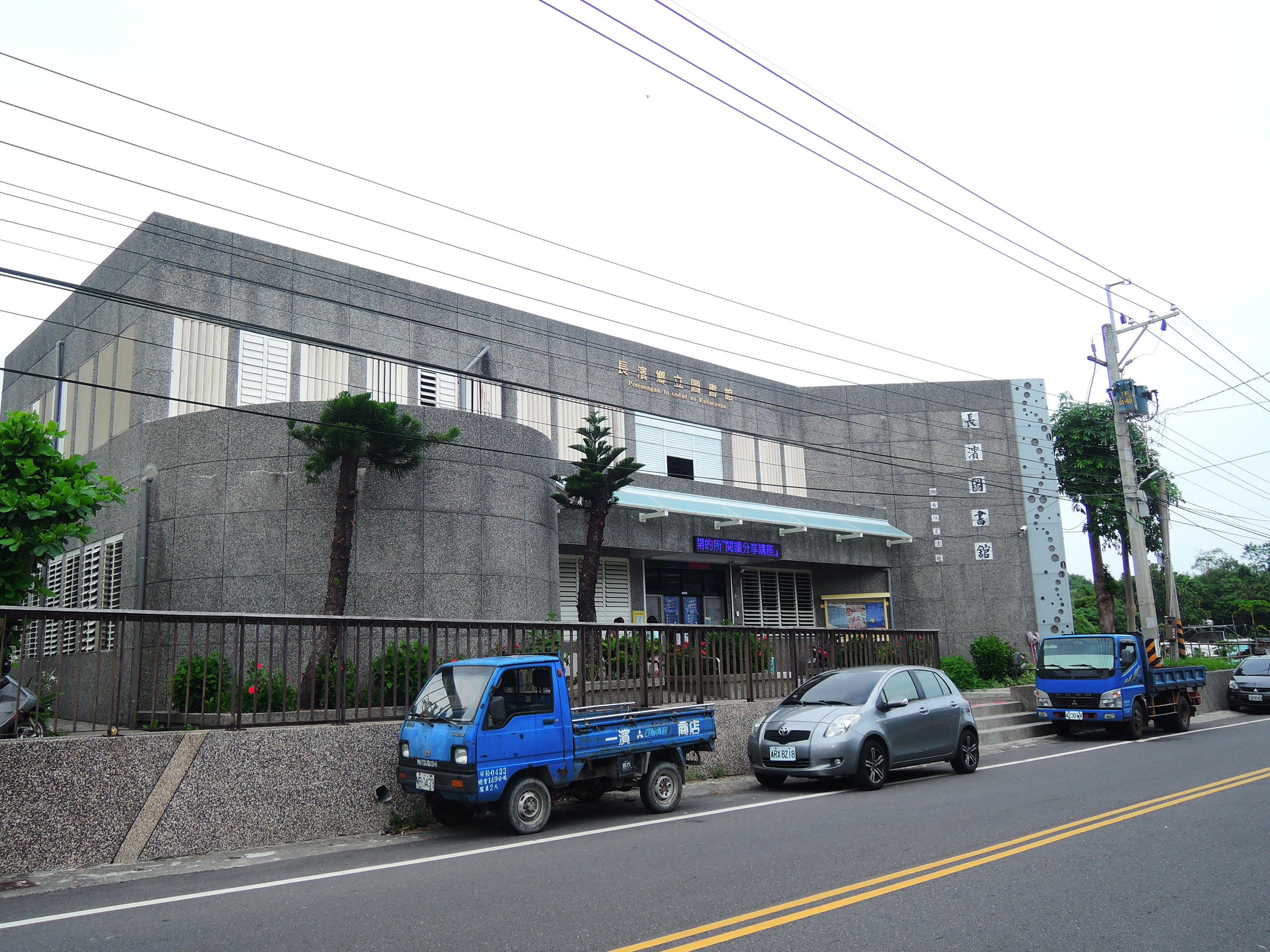 Kakacawan Library at Changbin of Taitung, Taiwan